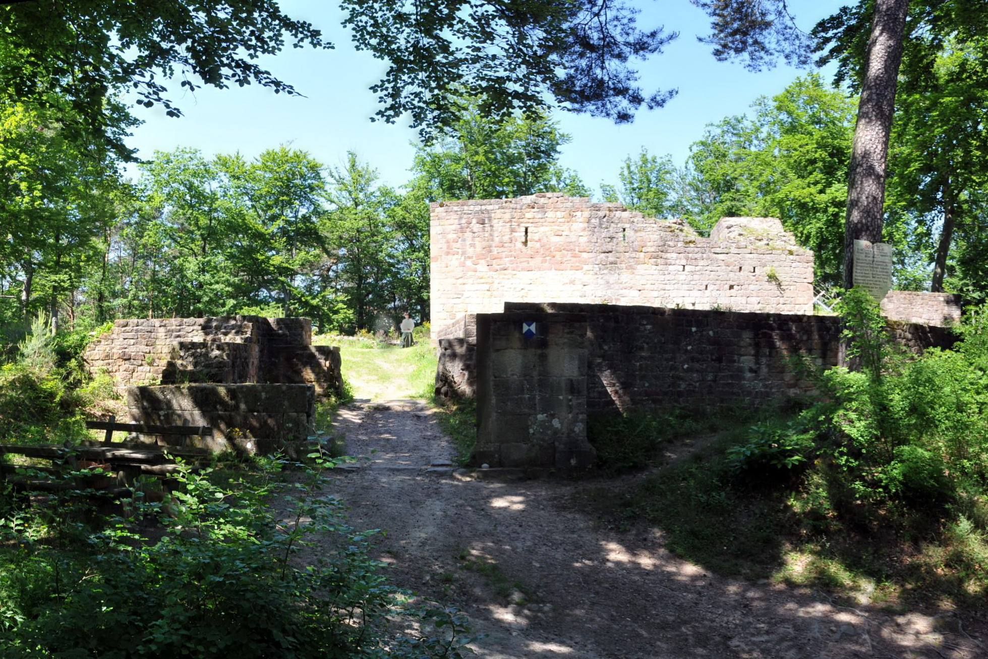 Ruins of Castle "Schloessel".